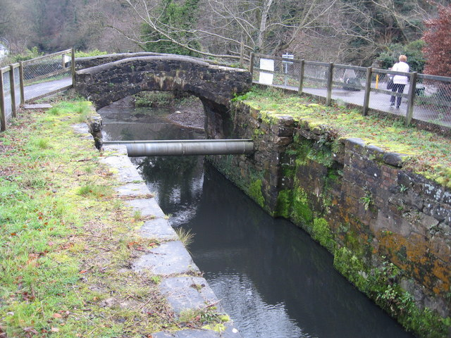 McLeave's Lock, Lagan Canal McLeave's Lock (Lock 3) on the Lagan Canal, one of the few places on the canal where the footbridge and lock-keeper's cottage remain intact.